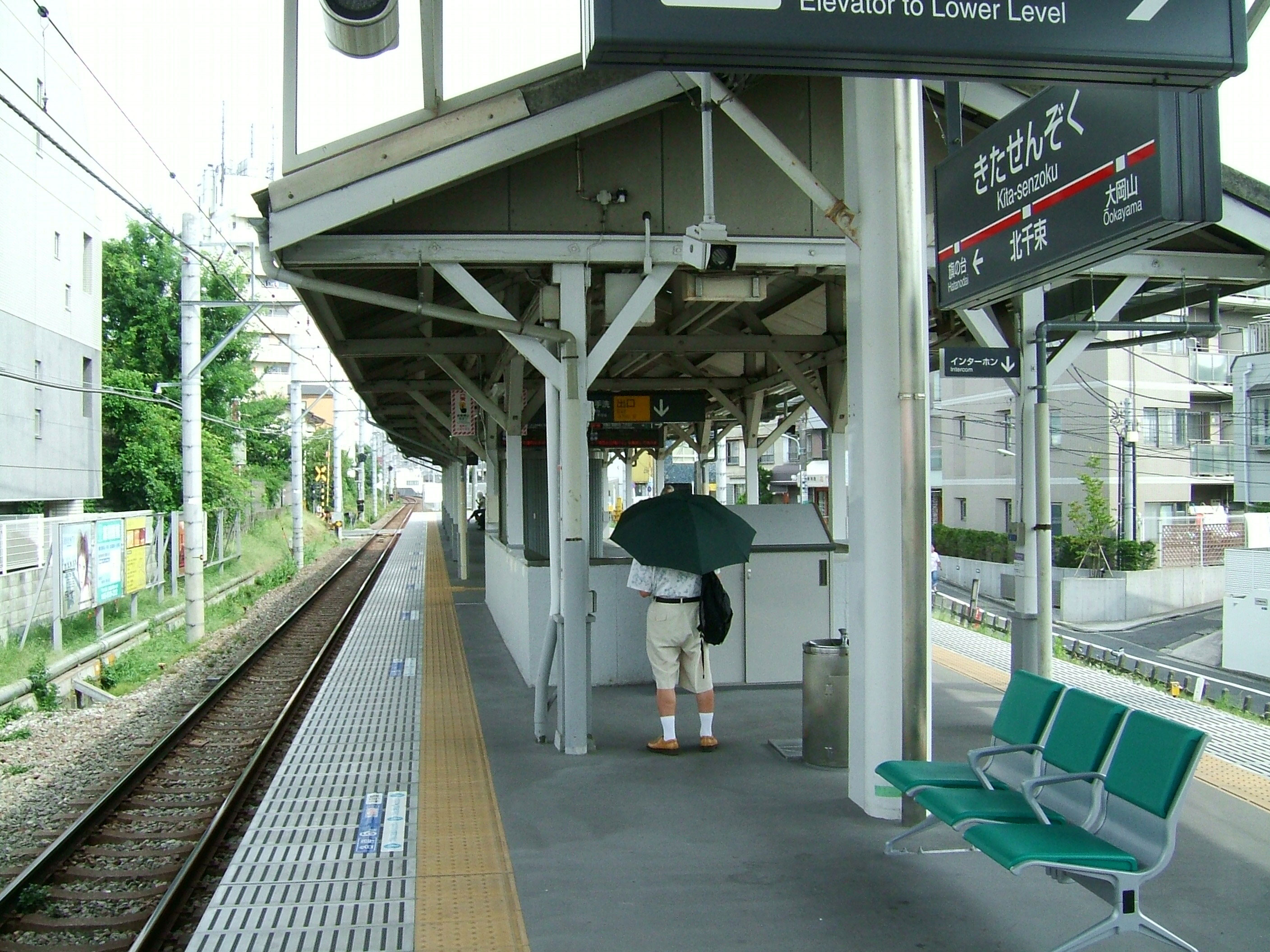 Kita-Senzoku Station platform (Tōkyū Ōimachi Line)